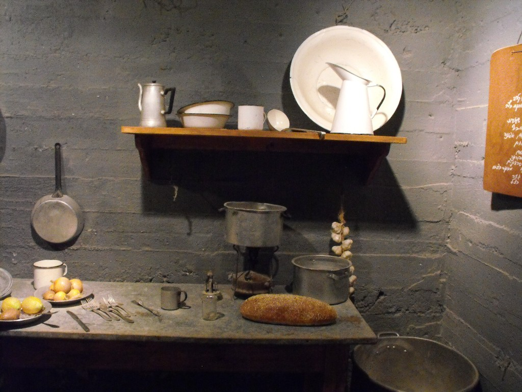 Geography of Israel